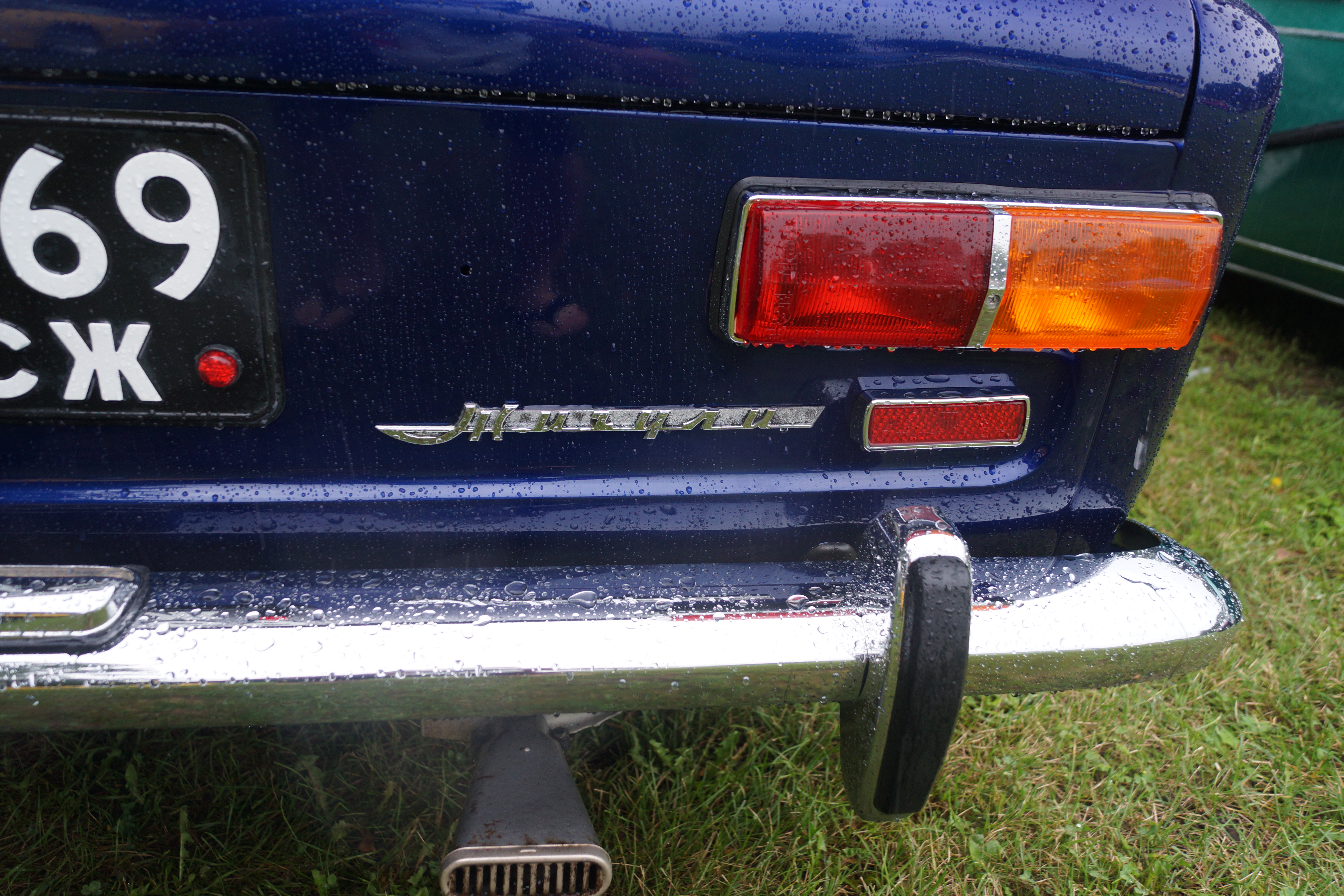 Southern Twin Cities Cruzers 28th Annual Summer Spectacular Car Show Dakota County Fairgrounds Farmington, Minnesota August 2016 Click here for more car pictures at my Flickr site.